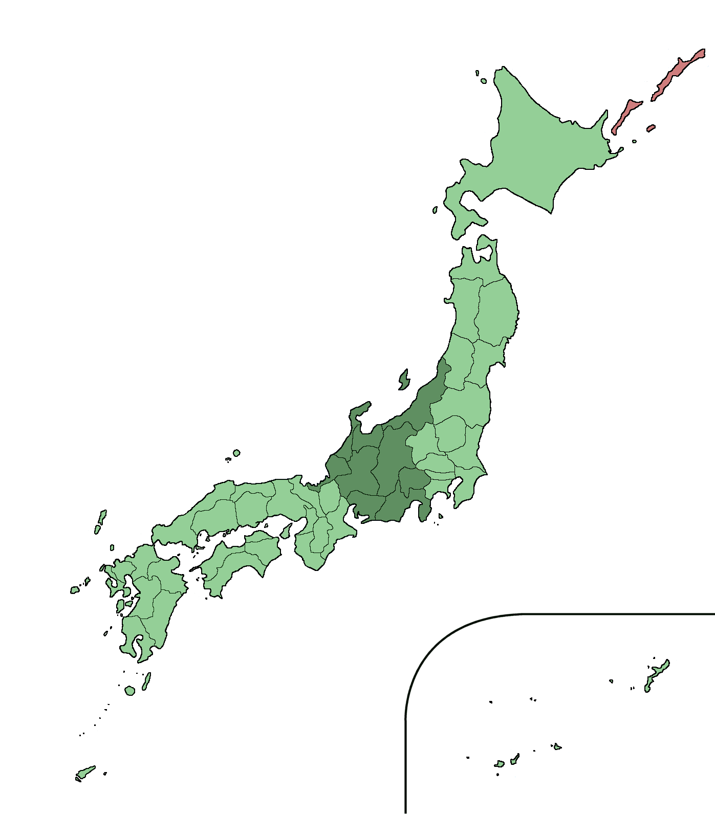 Large size map of Japan with Chubu region highlighted, self made but originally based on a japanese mapbook.